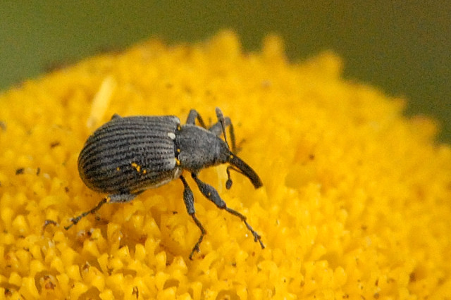 Picture taken in Commanster, Belgian High Ardennes . Species: Anthonomus rubi